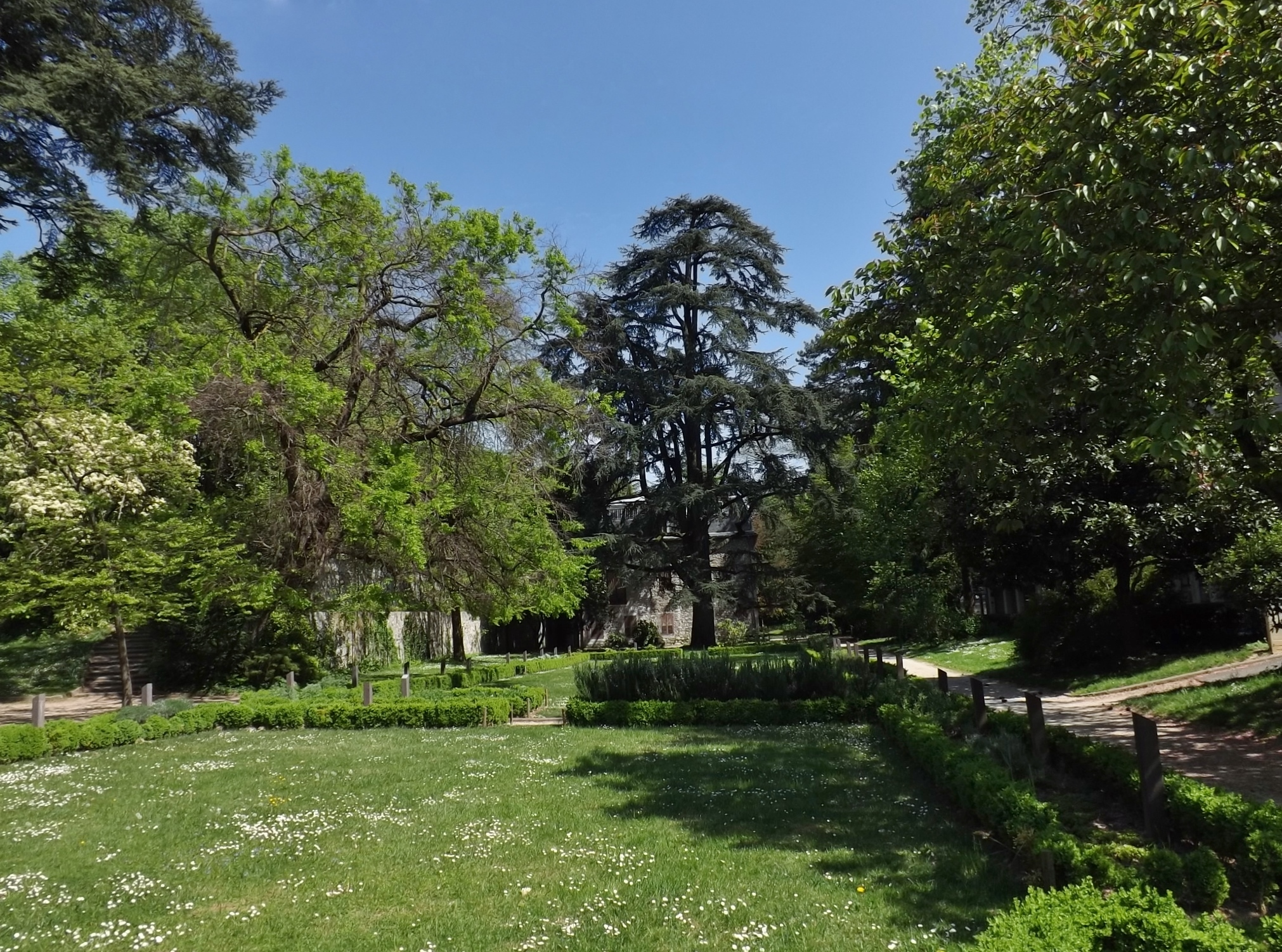 Sight of the aromatic garden of Chambéry with at the background the city Natural History Museum, in Savoie, France.